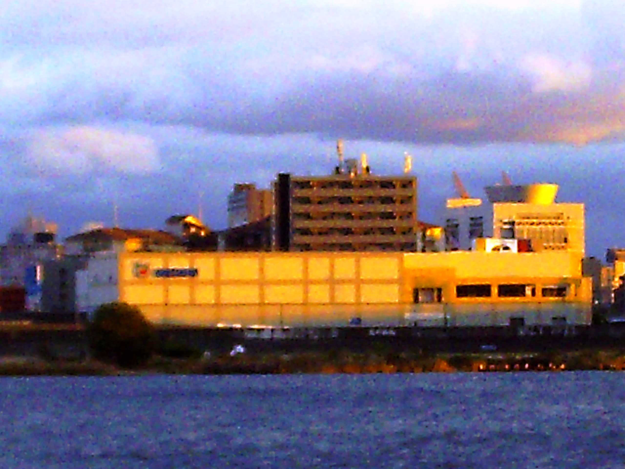 Sankei Oyodo Factory